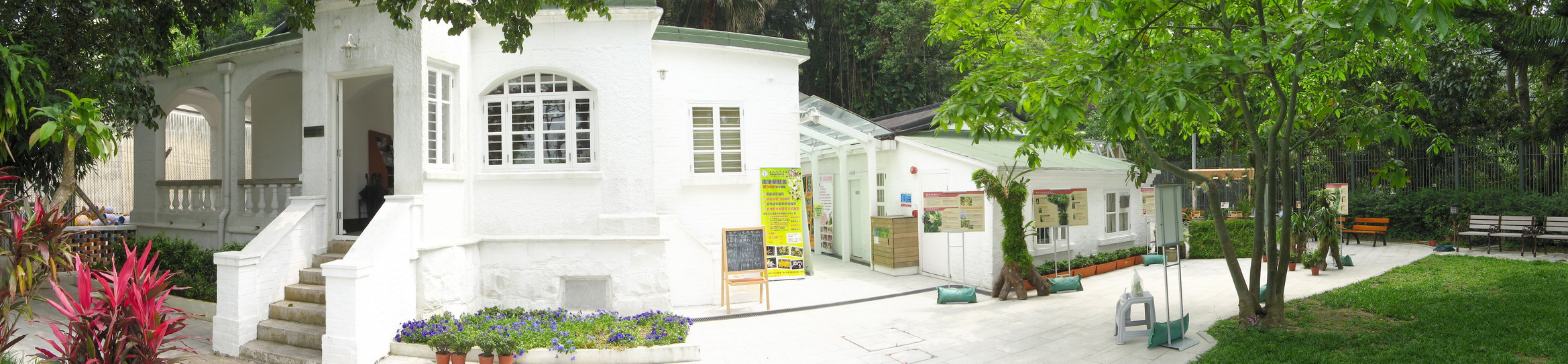 Lung Fu Shan Environmental Education Centre located at 50 Kotewall Road, Mid-Levels, Hong Kong.